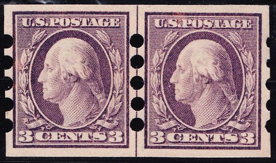 US Postage coil stamps with center line and Mail-o-meter Type 4 perforations